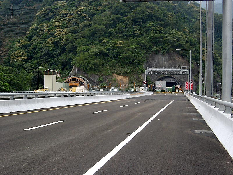 The Hsuehshan Tunnel west portal (Pinglin Township, Taipei County), under construction (Sep. 29, 2002) 中文（台灣）: 施工中的雪山隧道西口 (台北縣坪林鄉,2002年9月29日)